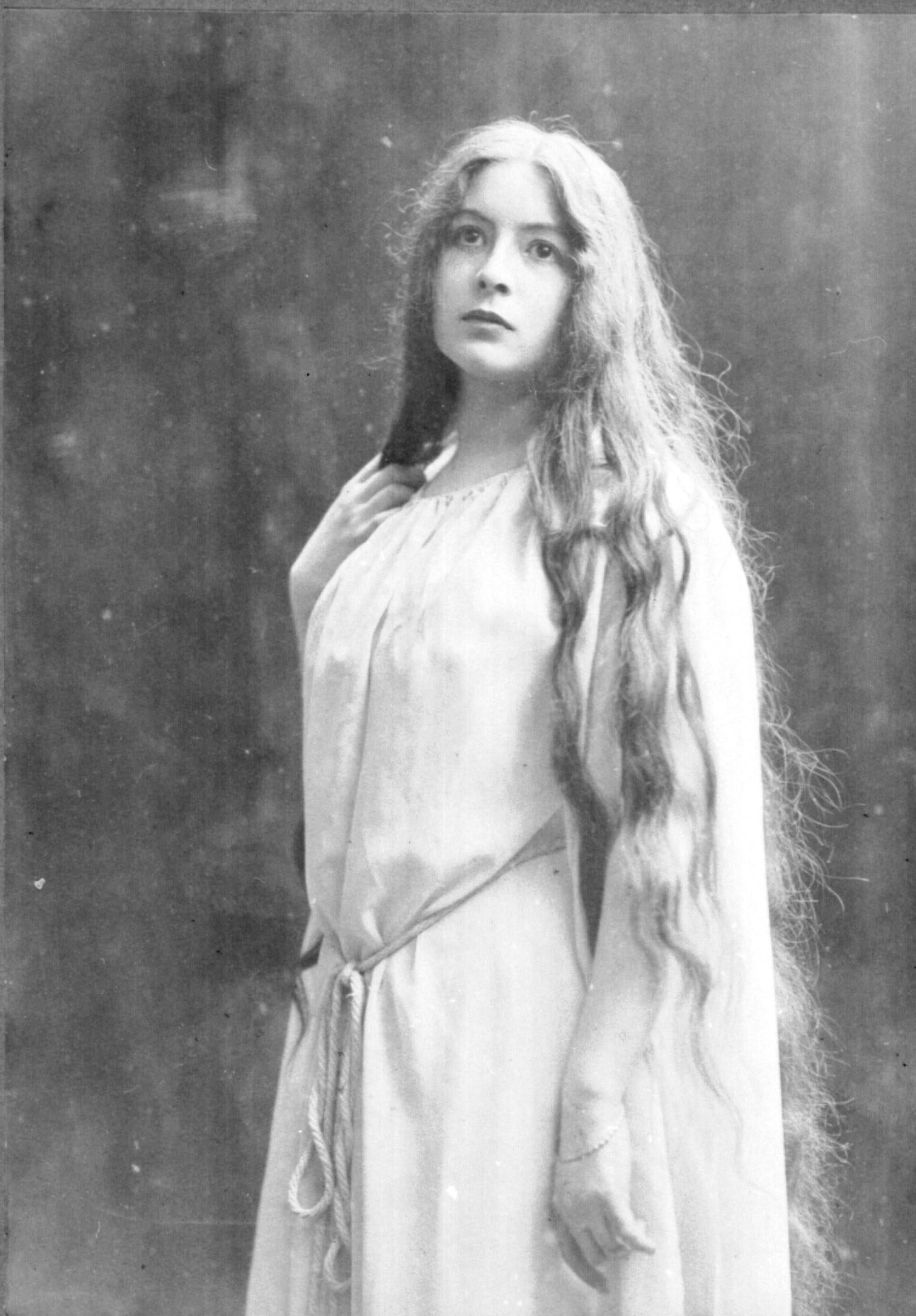 Artist: Herm. Hamnqvist Date/place: Sept. 1905, Stockholm Subject: Lola Artôt de Padilla Medium: photographic positive, B&W Notes: French-Spanish soprano. Written under the photo. "Dem Genialen Kunstlerpaar, und lieben Freunden, Edvard und Nina Grieg, in tiefsten Bewunderung. Lola Artôt de Padilla - Sept 1905" (The genius couple of artists and dear friends, Edavard and Nina Grieg in deepest admiration. Lola Artôt de Padilla - Sept. 1905) Persistent URL: [#//bergenbibliotek.no/digitale-samlinger//engelsk/-intro-eng” Original belongs to the Edvard Grieg Archives at Bergen Public Library] Original reference: EGM0287